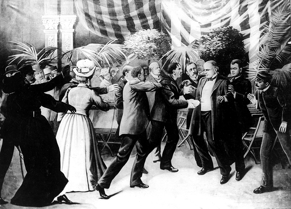 Assassination of William McKinley. Czolgosz shoots President McKinley with a concealed revolver, at Pan-American Exposition reception, Sept. 6th, 1901.